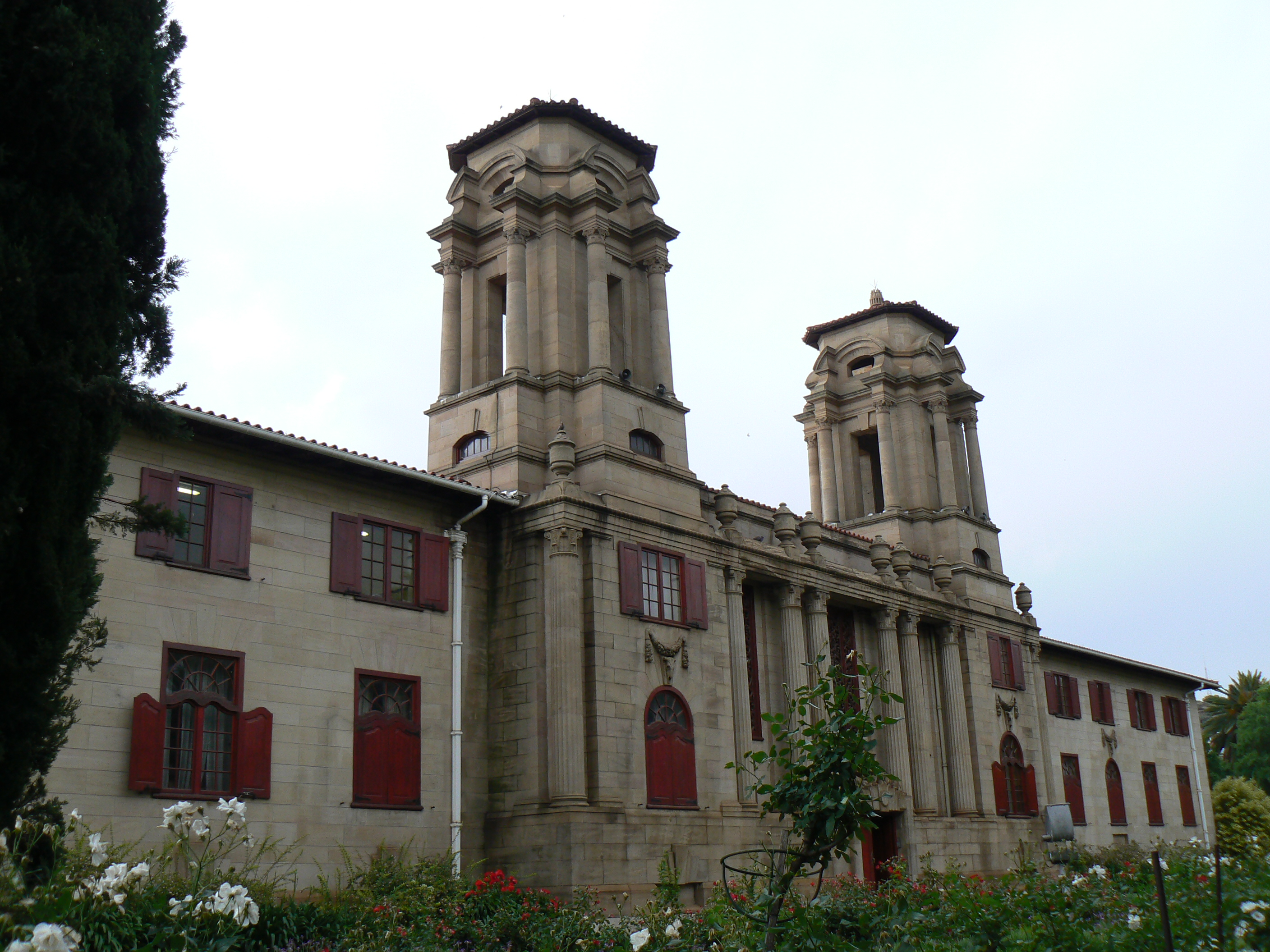 City Hall, President Brand Street, Bloemfontein This media shows a South African Protected Site with SAHRA file reference 9/2/302/0019.